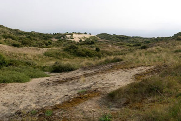 Dunes at Amsterdamse Waterleidingduinen